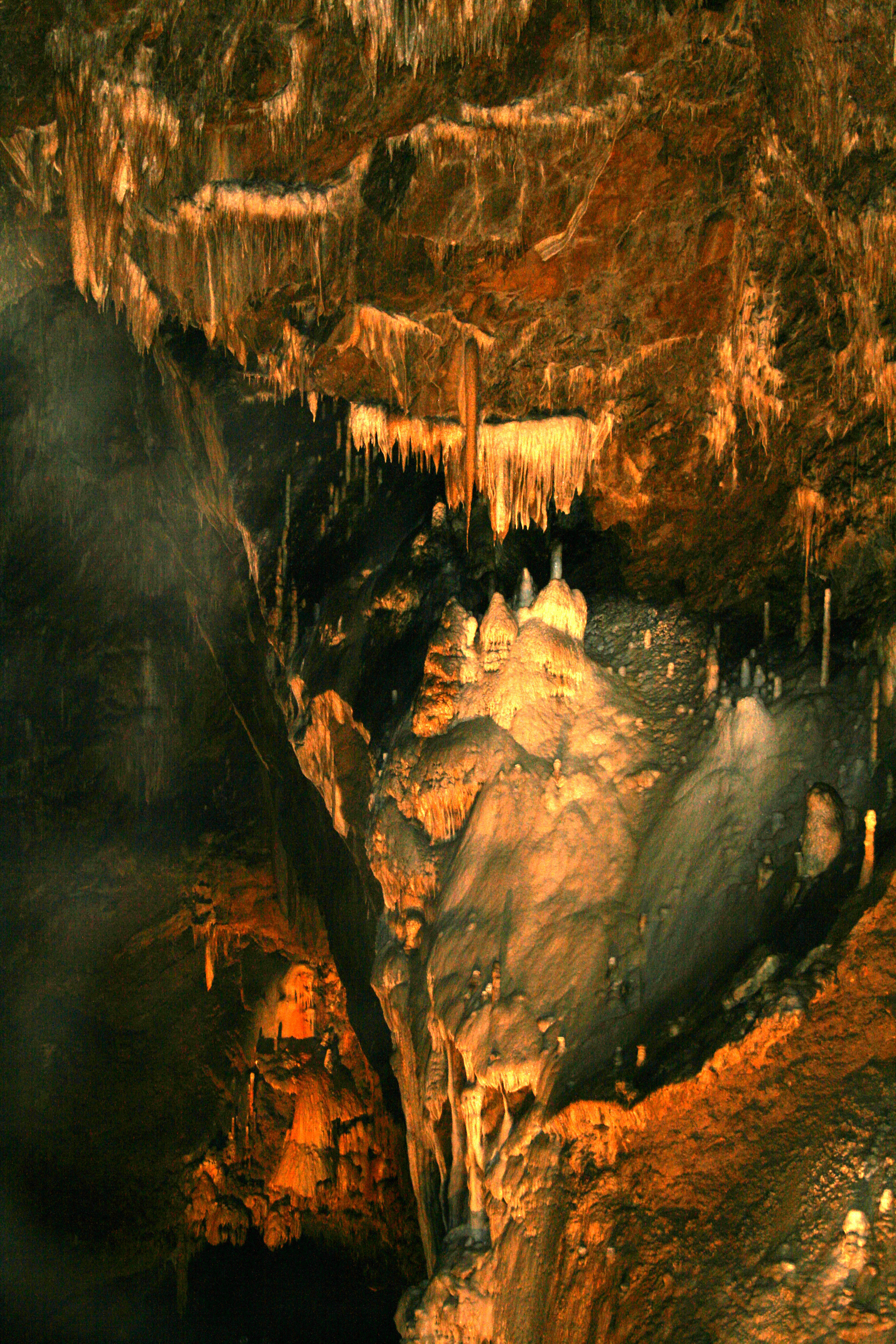 Rochefort, Belgium - The cave of Lorette.